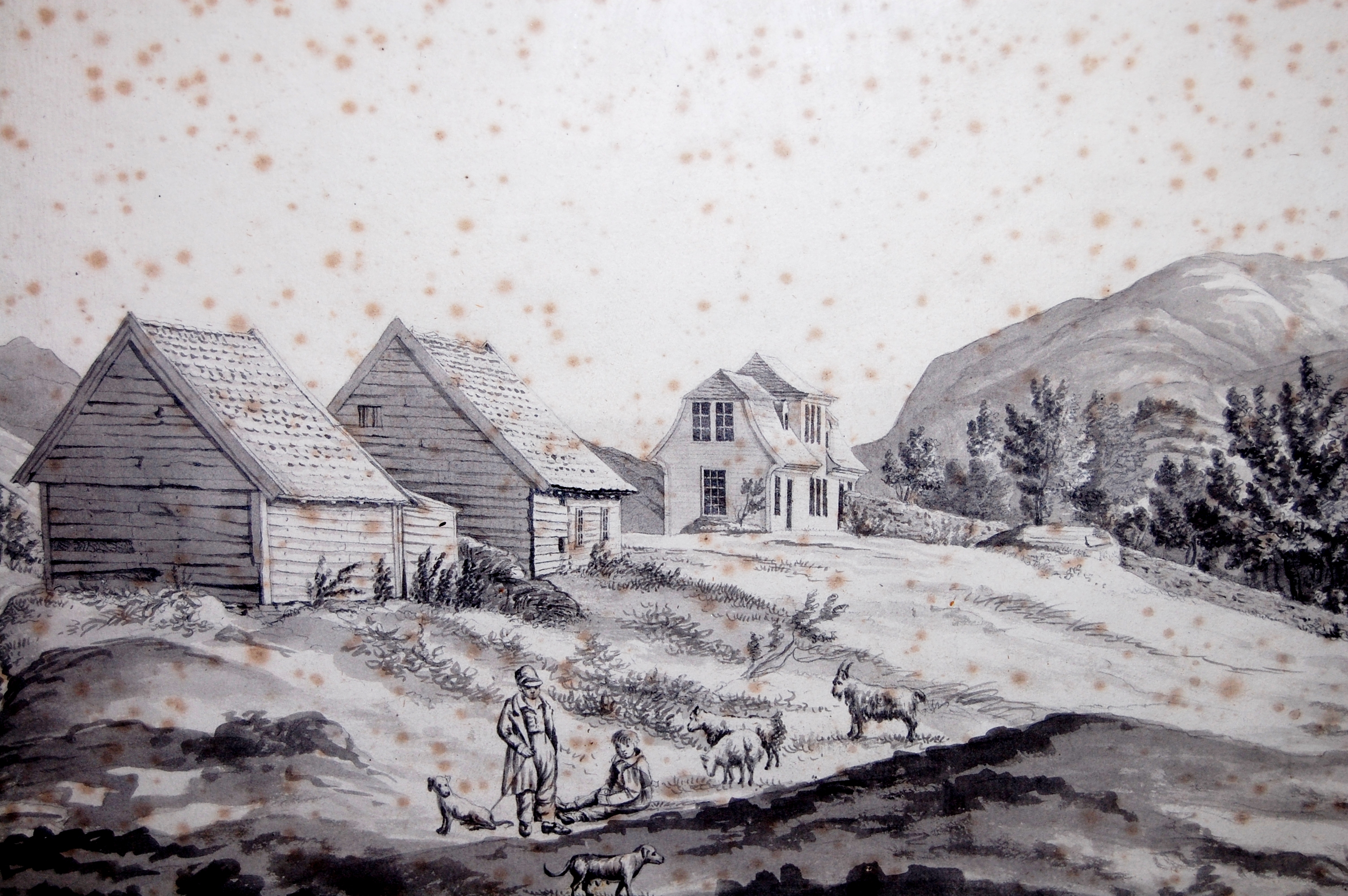 Prospect of Sophiesminde in Bergen